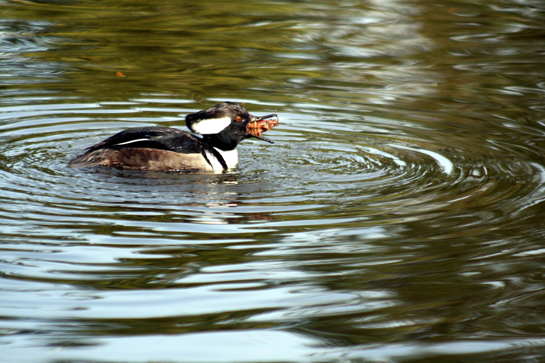 Male Hooded Merganser,Lophodytes cucullatus with a Crayfish